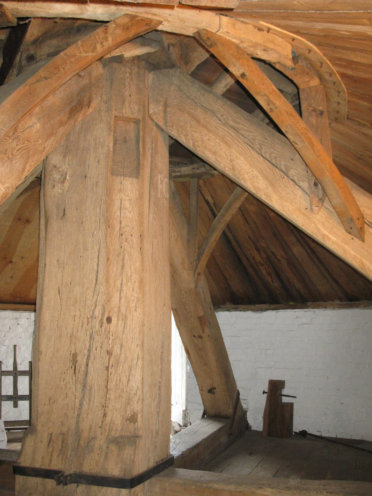 The main post of Keston Windmill, London Borough of Bromley (formerly Kent). Note the date 1716 carved at bottom.